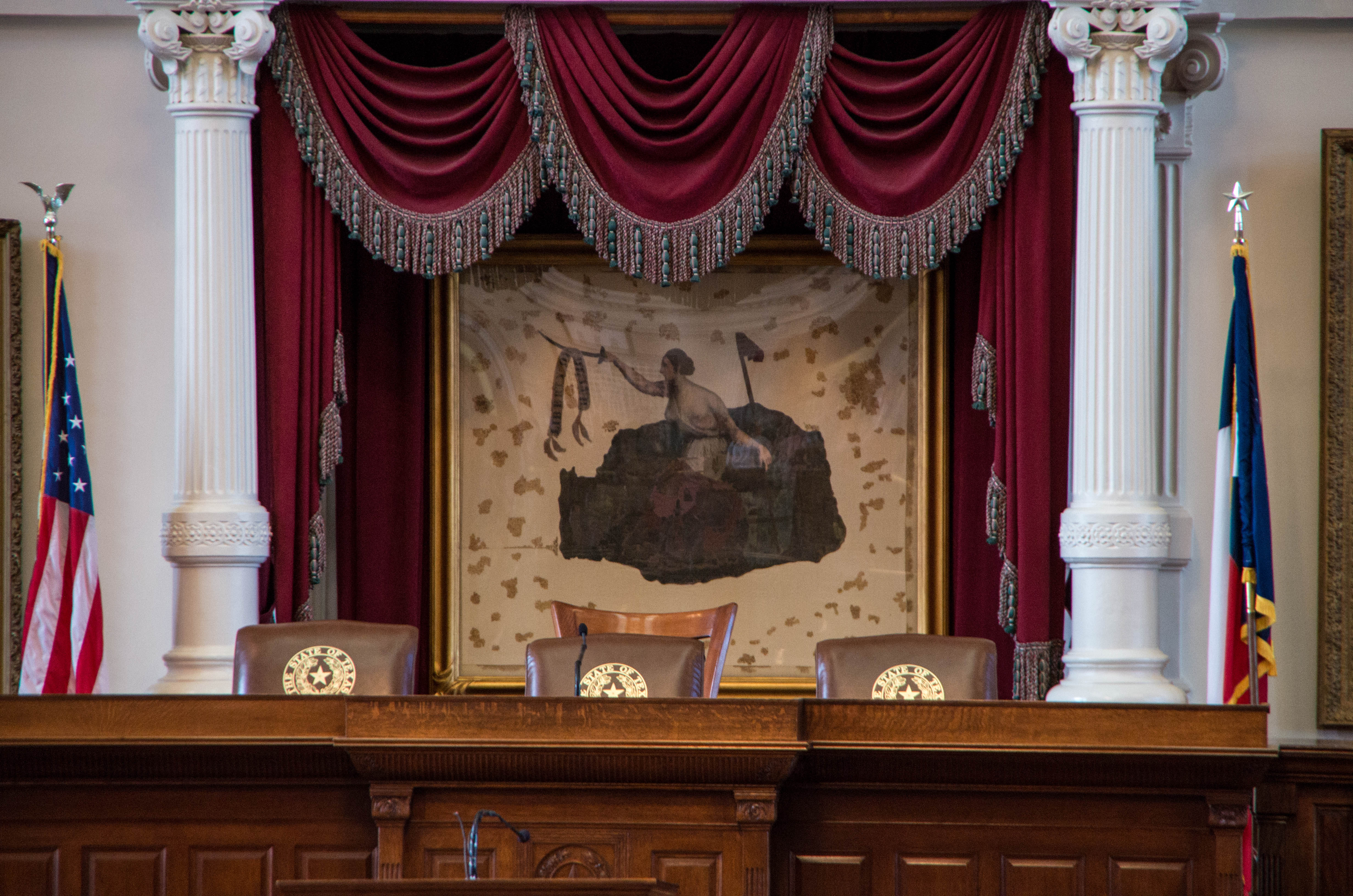 San Jacinto Liberty Battle Flag, currently displayed in the Texas House of Representatives.